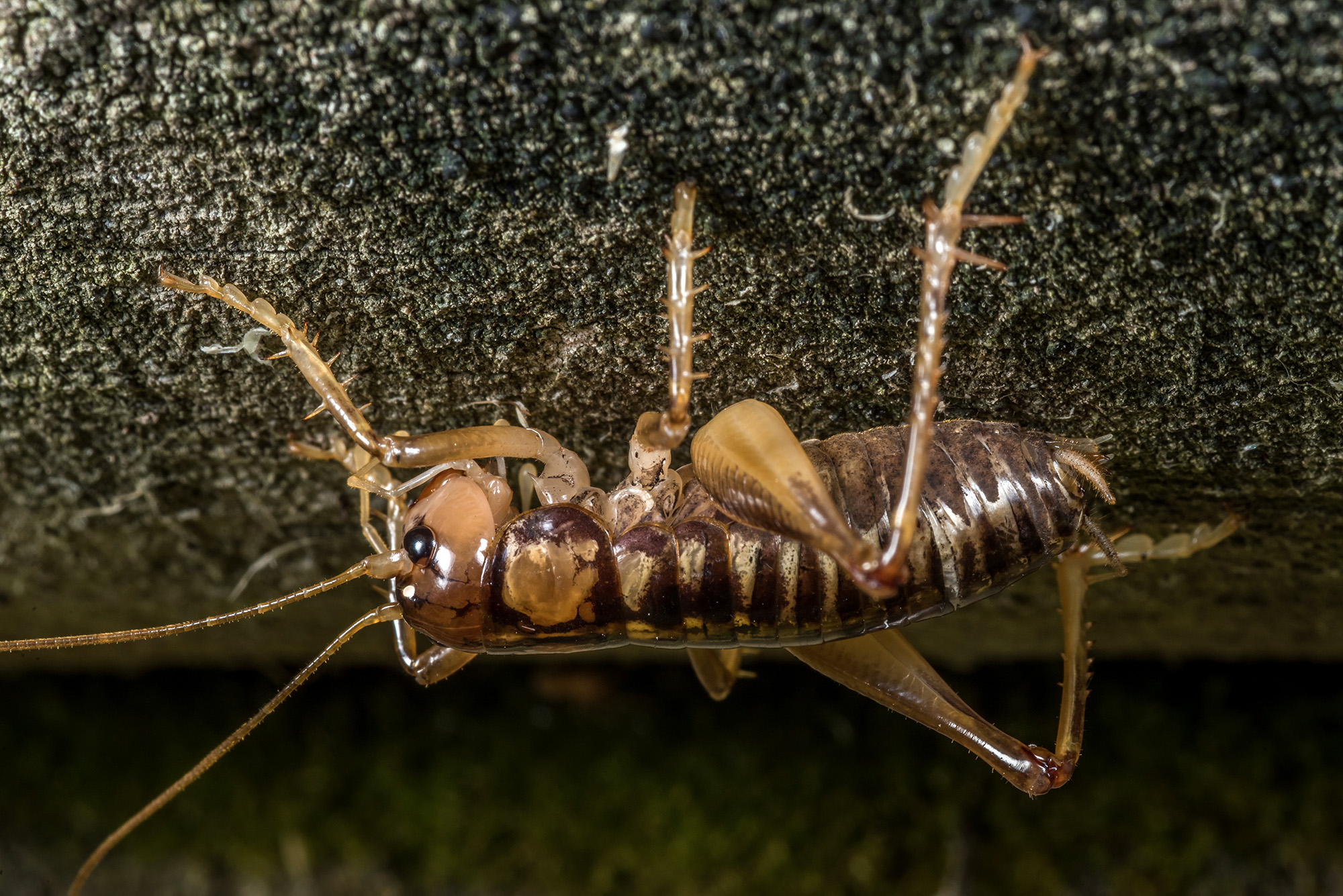 Ground wētā (Hemiandrus maia). Opoho, Dunedin.